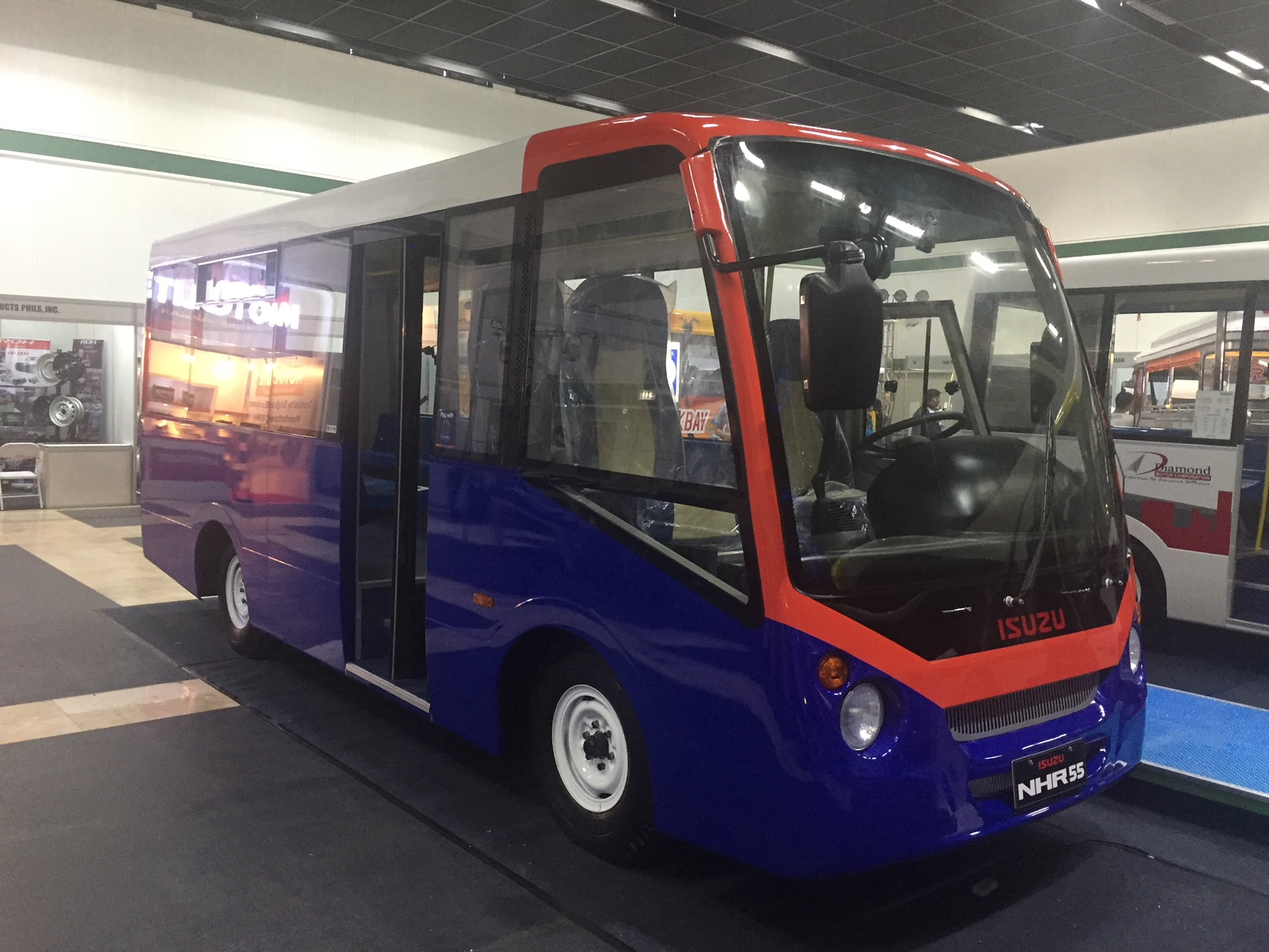 Prototype Isuzu Modern Jeepney at the Department of Transportation's PUV Modernization Exhibition at Philippine Convention Center (PICC) Forum in Pasay City.